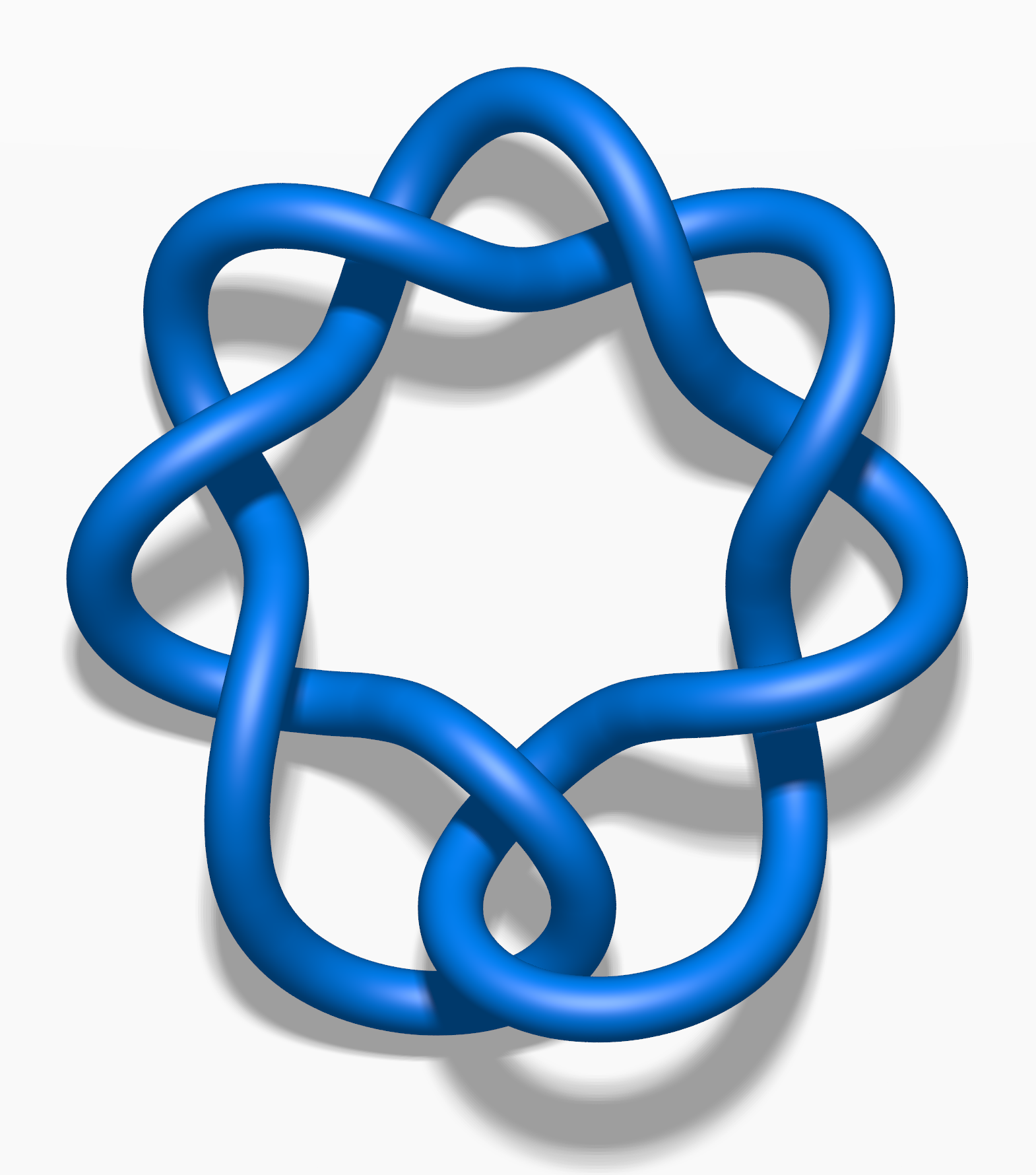 A six-twist (81) knot